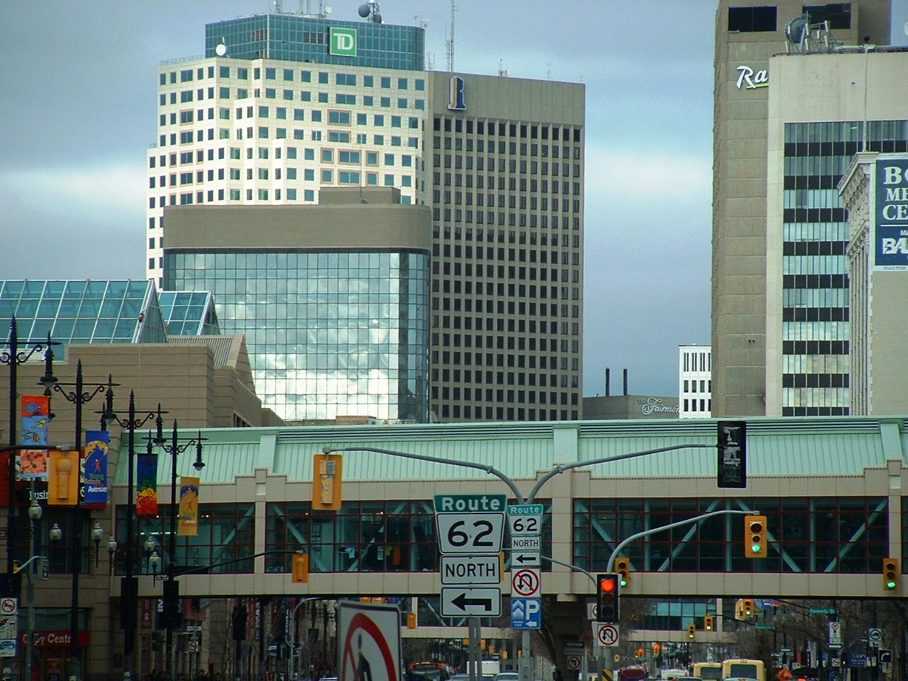 Winnipeg's Portage Avenue, looking east from Colony Street.